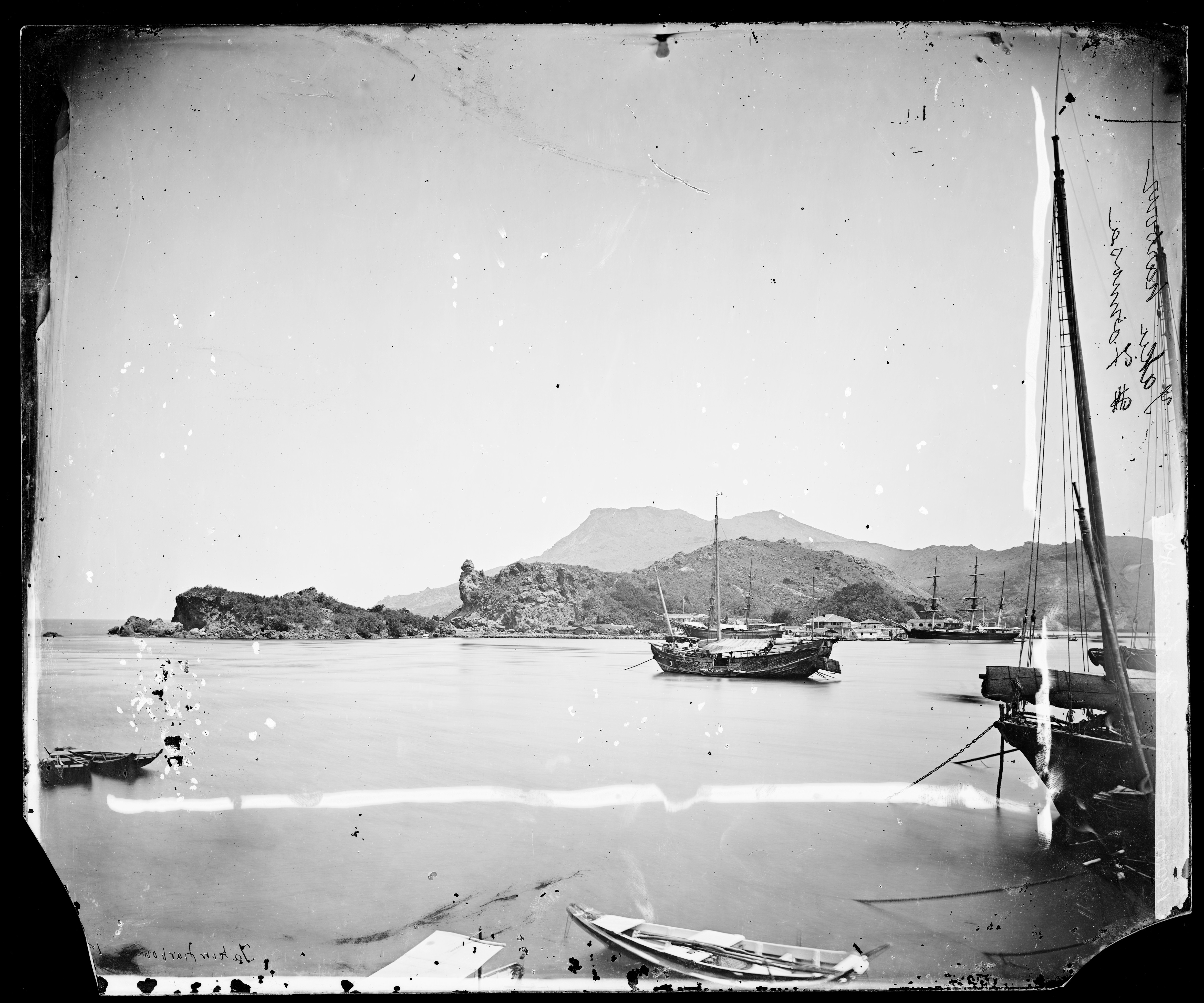 Takow, Formosa [Taiwan]. Photograph by John Thomson, 1871. Iconographic Collections Keywords: J. Thomson